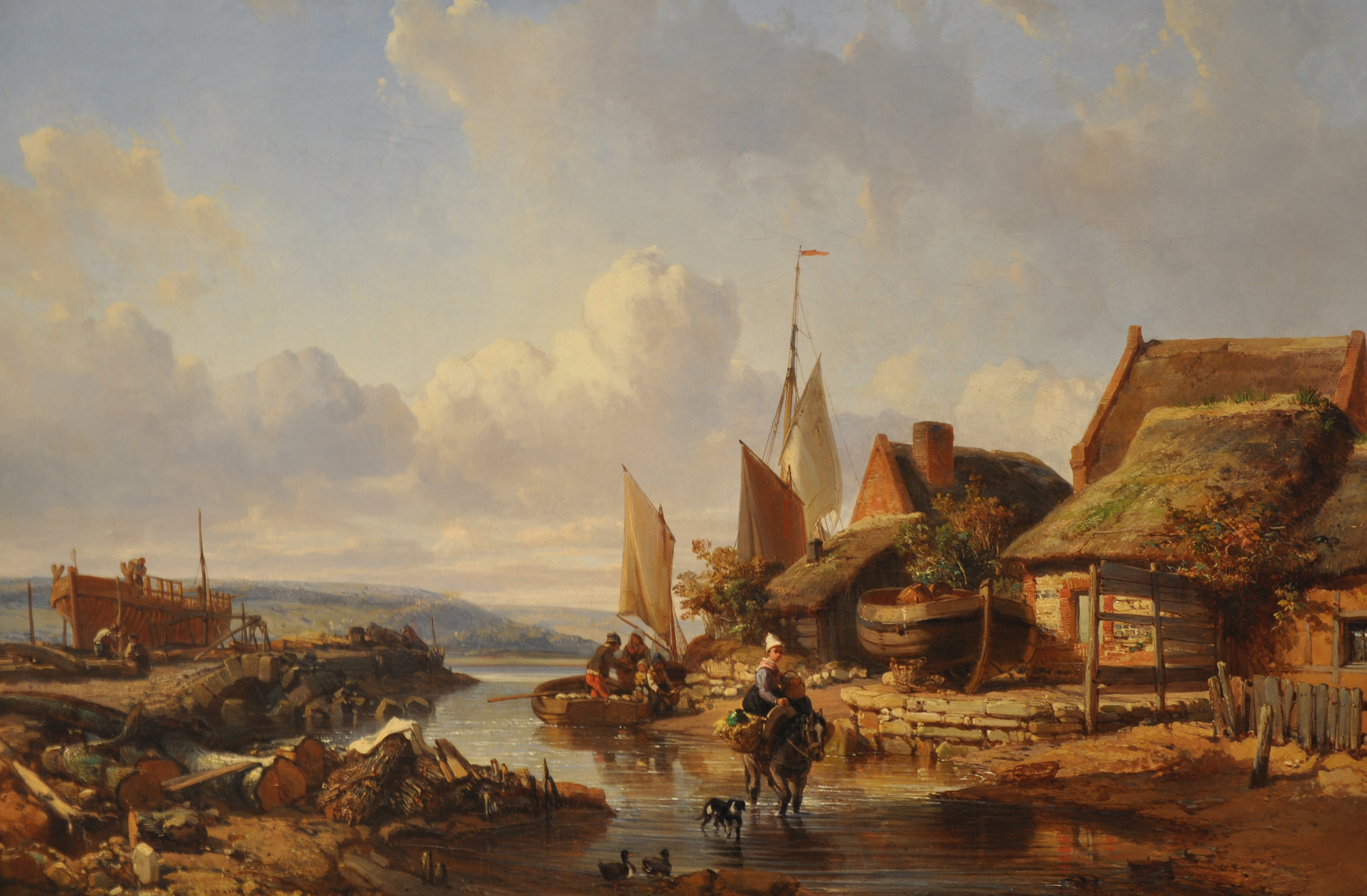 Charles Mozin (1806-1862), The Confluent of the creek of Calenville with the River Touques, or Le Quernet , Trouville-sur-Mer, musée de Trouville - Villa Montebello.